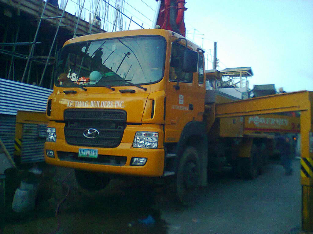 Hyundai HD1000/Trago